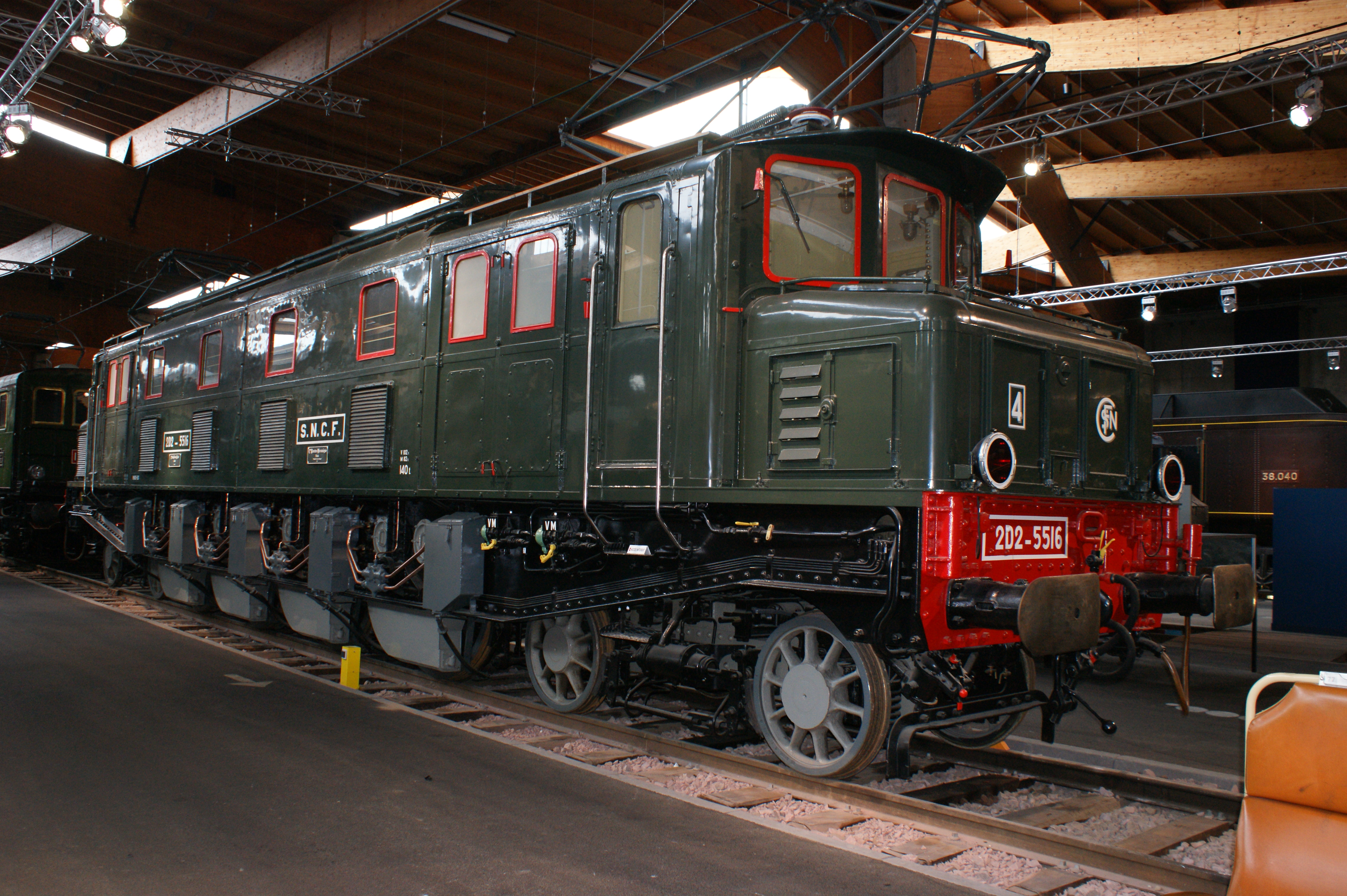 P.O. CEM Class 2D2-5500 1,500V dc overhead 2-Do-2 No.2D2-5516 at the French Railway Museum, Mulhouse, 3/09. Designed by Hypolite Parodi and built 1933-35.